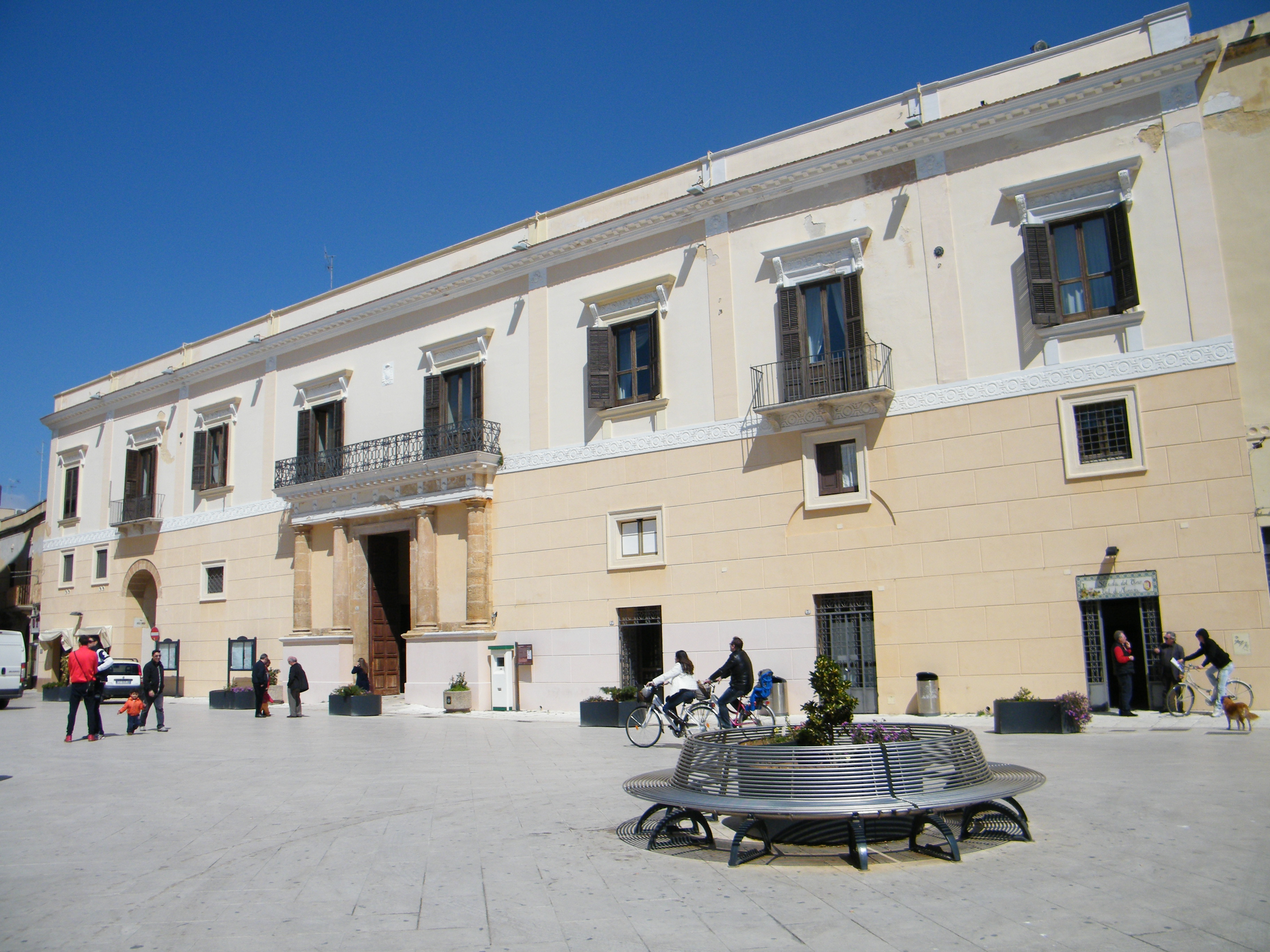 Bishop palace Mazara